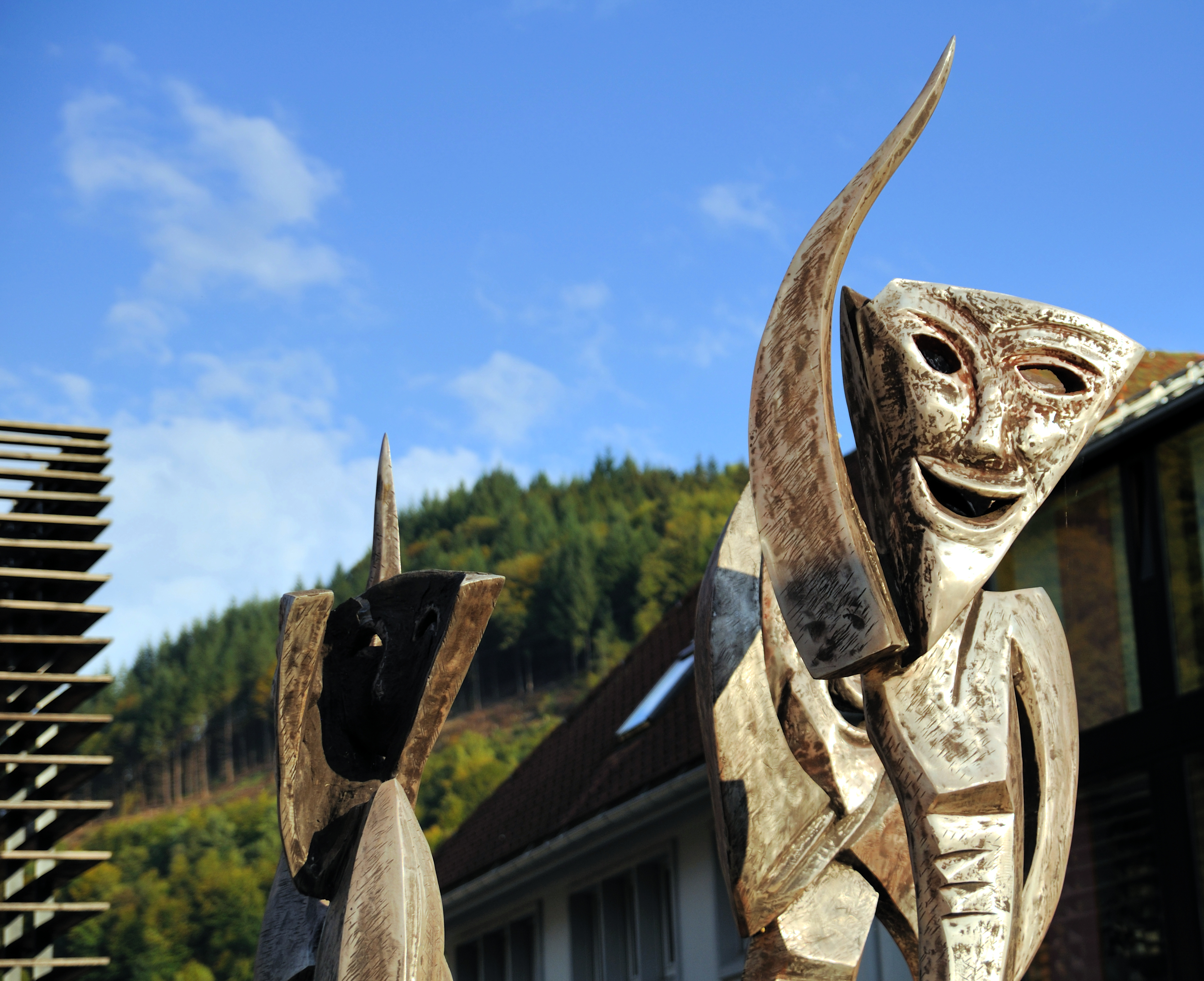 Zell im Wiesental: Carnival fountain (detail)